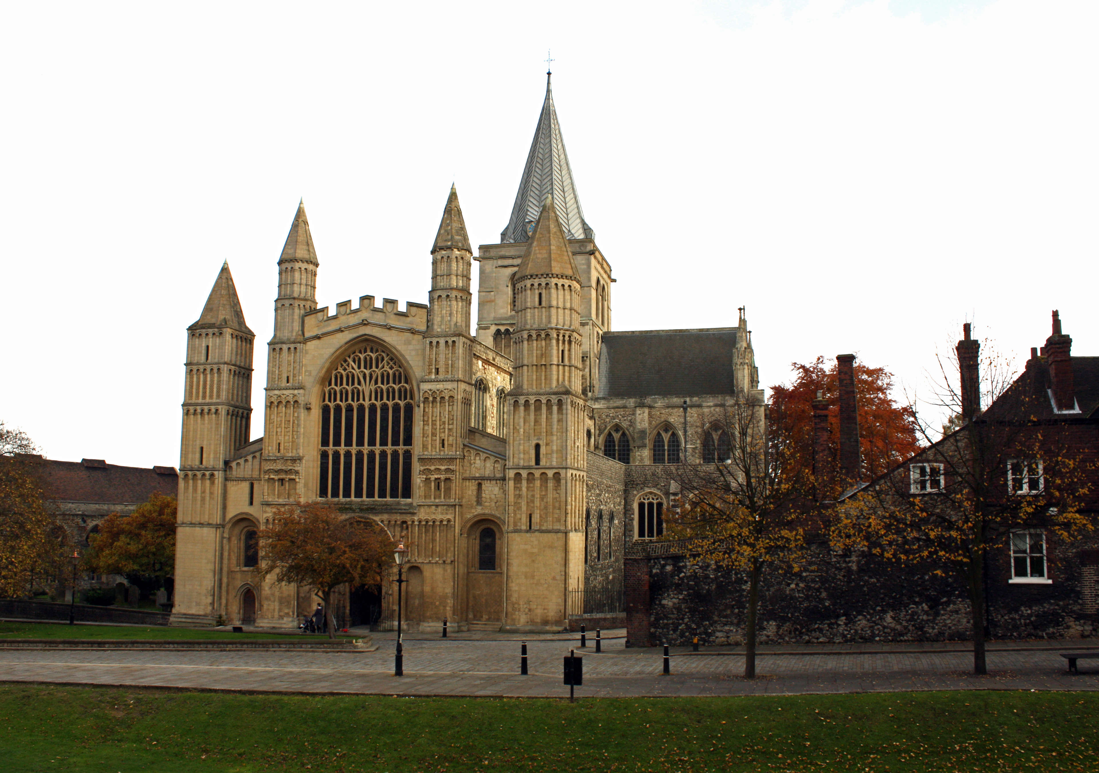 Rochester is England's second oldest Cathedral. The oldest is at Canterbury some 25 miles by road from here. Rochester is really a grand Parish Church in comparison but it has had some interesting additions to the original Norman structure started in 1080 most notably a very grand Romanesque facade that gives it an almost fairytale appearance